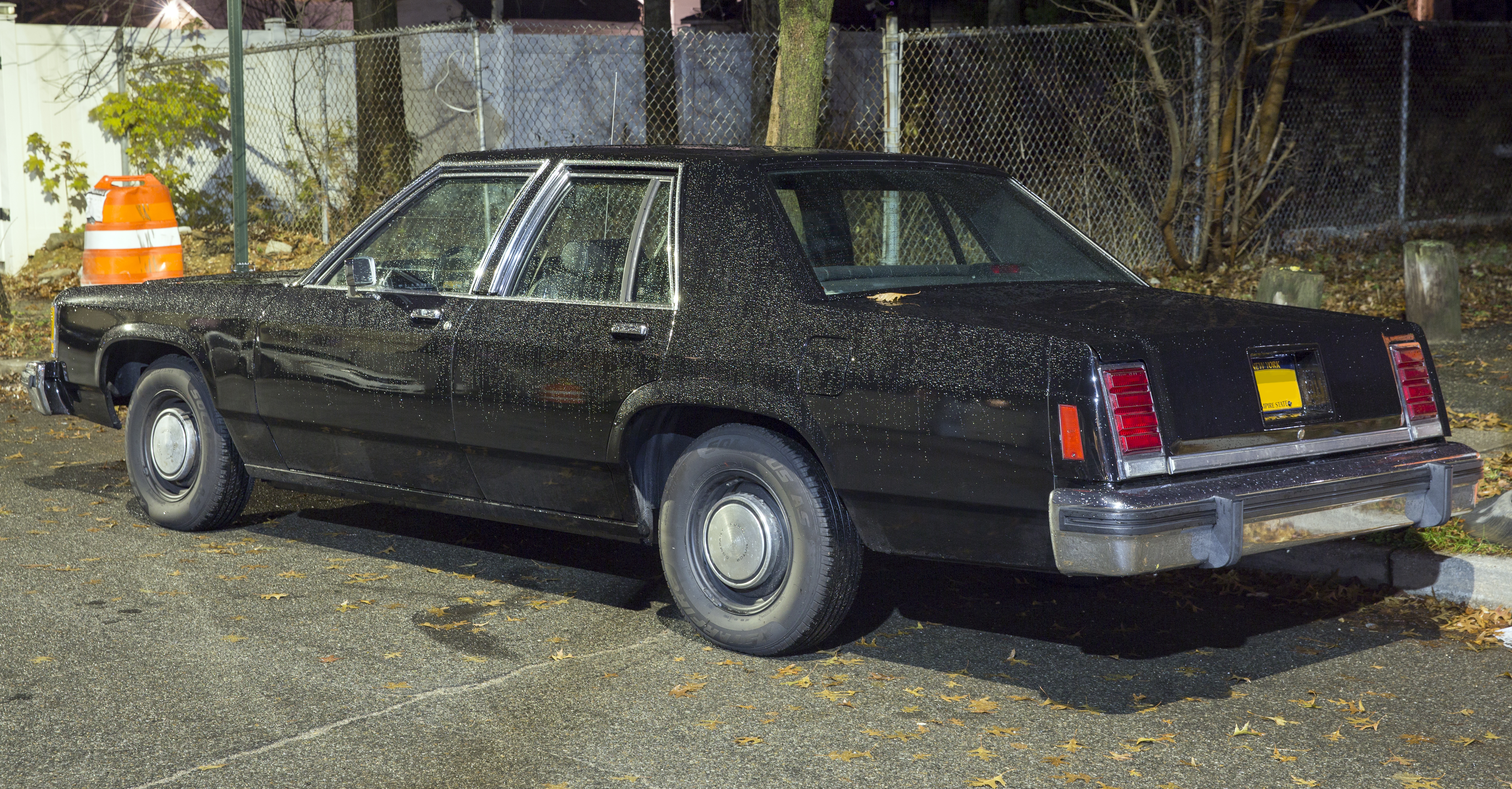 A 1986 Ford LTD Crown Victoria in Queens, NYC. 150hp, 302ci CFI V8 engine, built in Talbotville, ON, Canada, looks to be the absolute base-spec fleet model with dog-dish hubcaps, vinyl interior and all. Surreal effect as the streetlights reflect in the raindrops on the car.